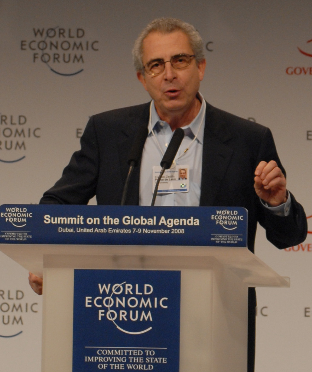 A cropped picture of Ernesto Zedillo, President of Mexico (1994–2000), at the World Economic Forum Summit on the Global Agenda 2008 in Dubai, United Arab Emirates.